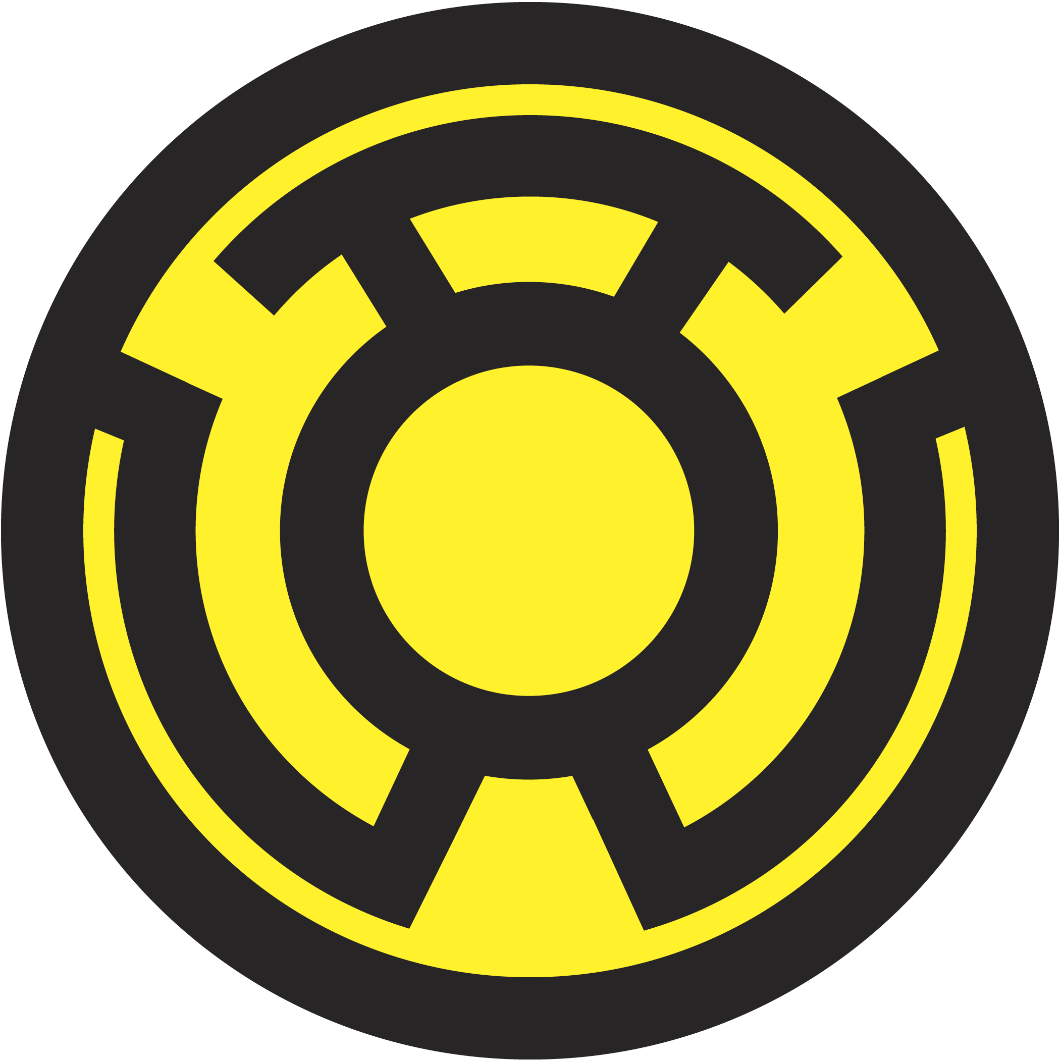 Logo of Sinestro Corps